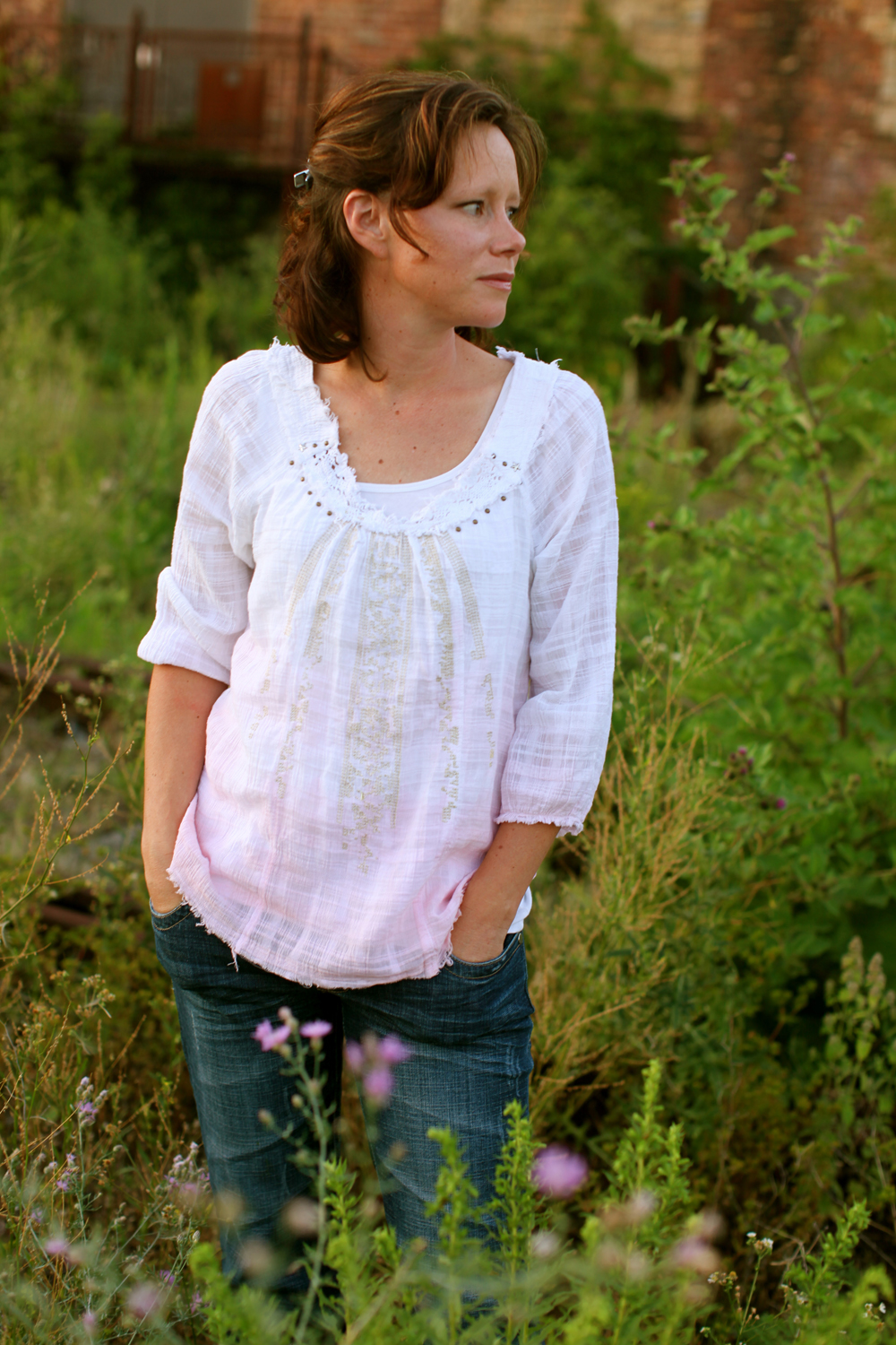 PR Photo of Sara from here record Fireflies and Songs